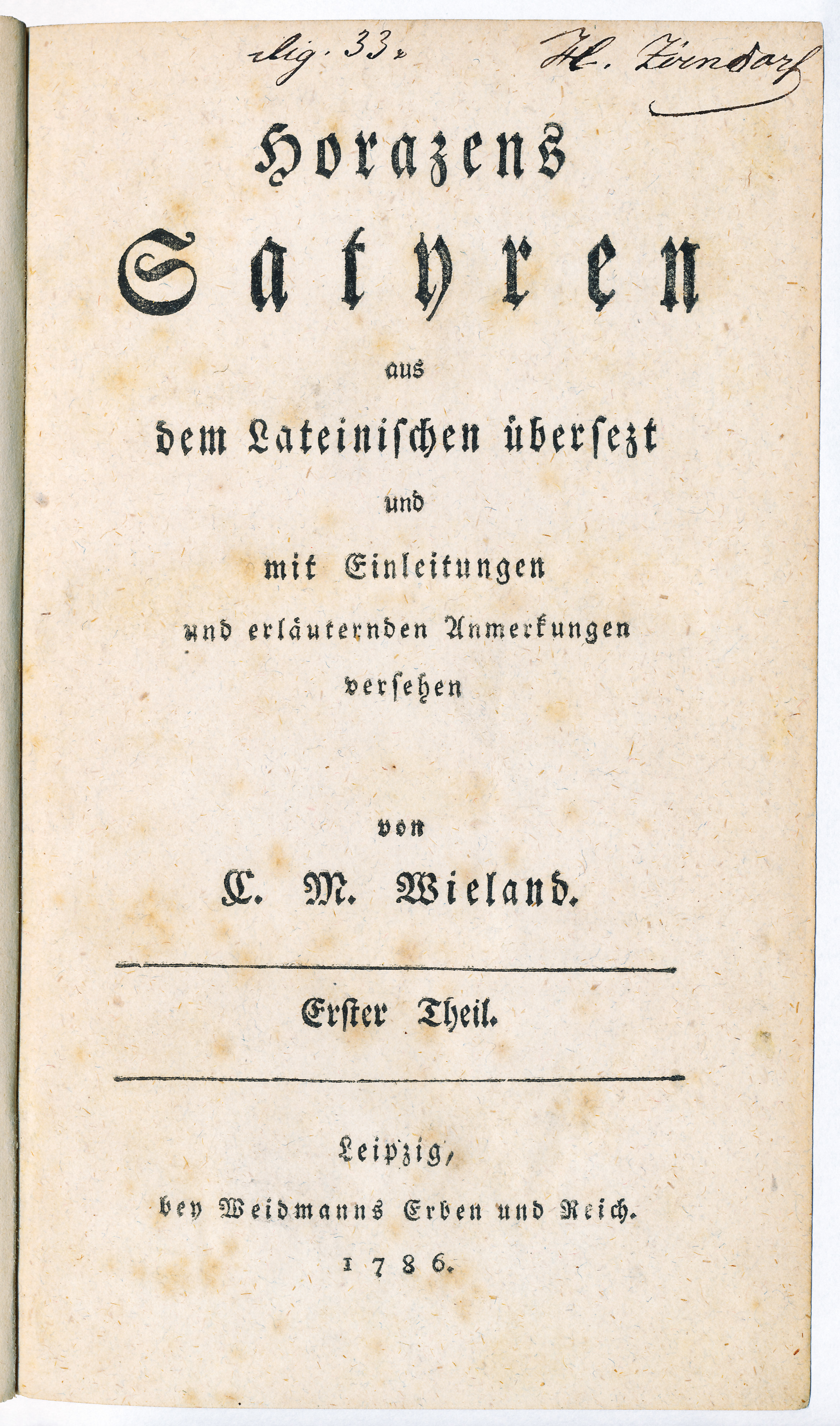 Title page of vol. I of the original edition of Christoph Martin Wieland’s German translation of Horace’ Satires, published in 1786. Wieland’s translation and witty notes are famous and useful even today. Full original title in original spelling: Horazens Satyren[,] aus dem Lateinischen übersezt und mit Einleitungen und erläuternden Anmerkungen versehen von C. M. Wieland. Erster Theil. Leipzig, bey Weidmanns Erben und Reich. 1786.